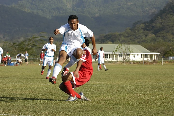 Vilamu Sekifu